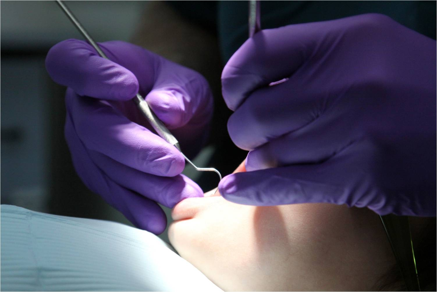 Navy reservist Capt. Richard Burke, pediatric dentist, Naval reserve station Illinois, examines the teeth of his patient, Sebastian T. Pacheco, 4, as part of a routine checkup during Burke's annual active duty training here July 19, 2012. Burke's visits to Iwakuni greatly augments the dental capabilities of the Robert M. Casey Medical and Dental Clinic.